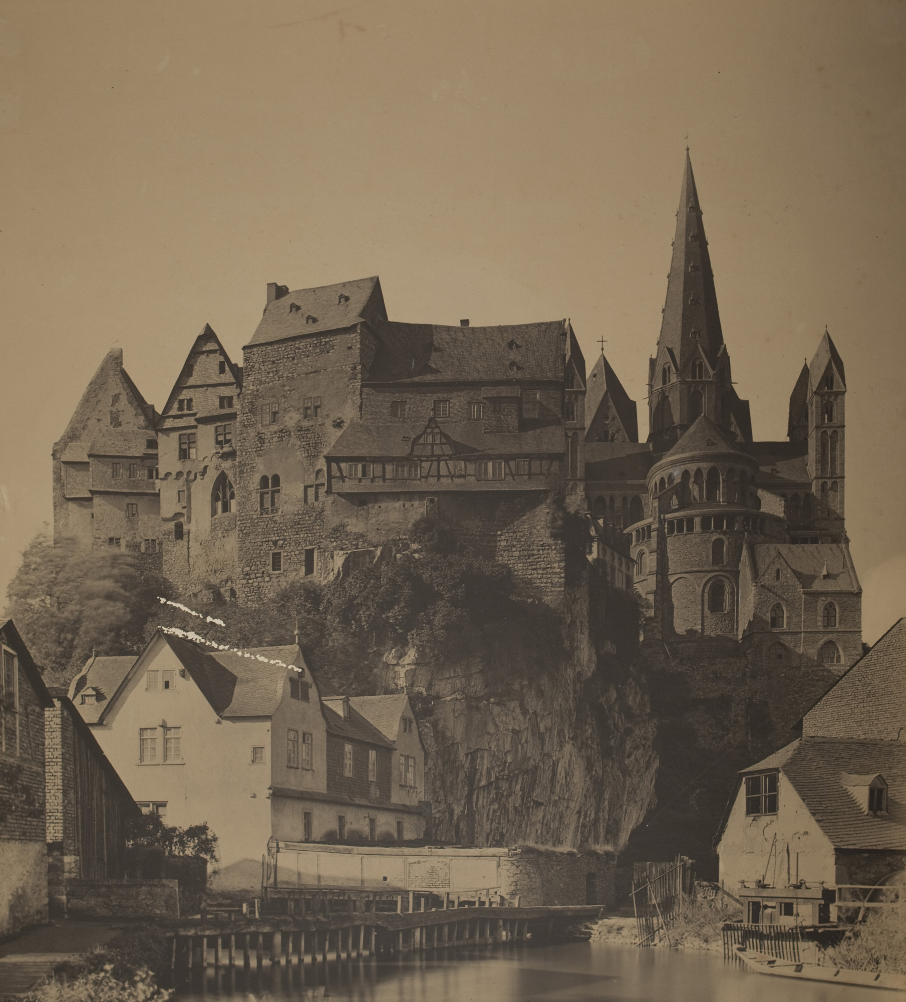 Artist: Messbild-Anstalt Artist Bio: German architectural institute, active 1885 - 1920 Creation Date: 1899 Process: gelatin silver print Credit Line: Gift of Stephen White Accession Number: 1983.073.078